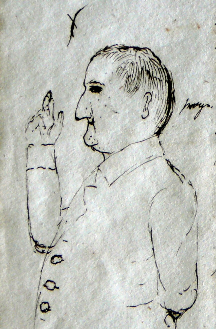 Federskizze am Rande einer Vorlesung über Geburtshilfe im 19. Jh., die wohl den Prof. der Chirurgie u. Geburtshilfe Leopold Sokrates von Riecke abbildet, Signatur Mh II 115